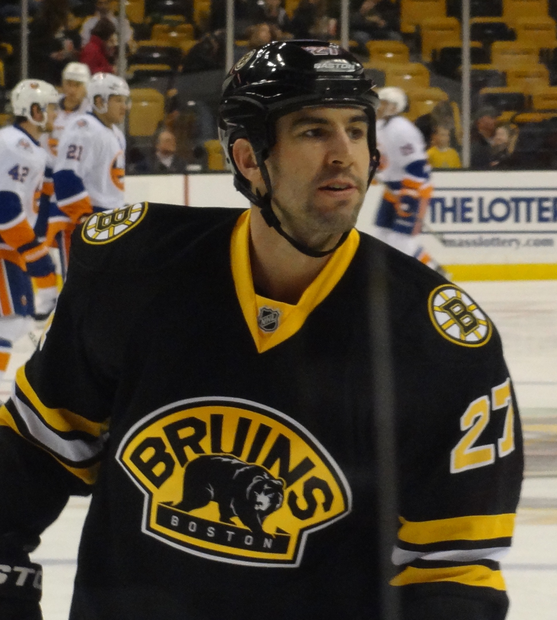 Mike during pre-game warm-ups at the Boston Bruins vs New York Islanders.